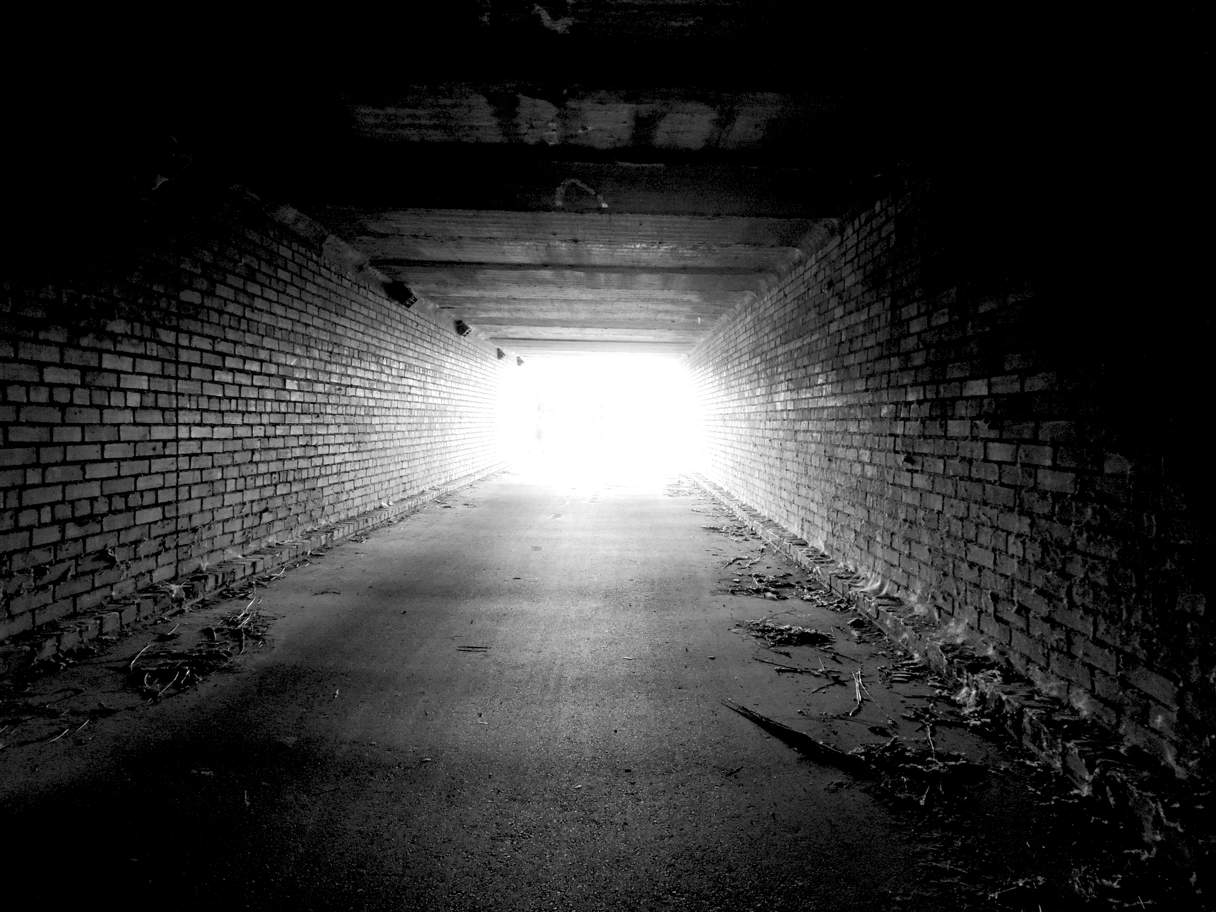 Tunnel light